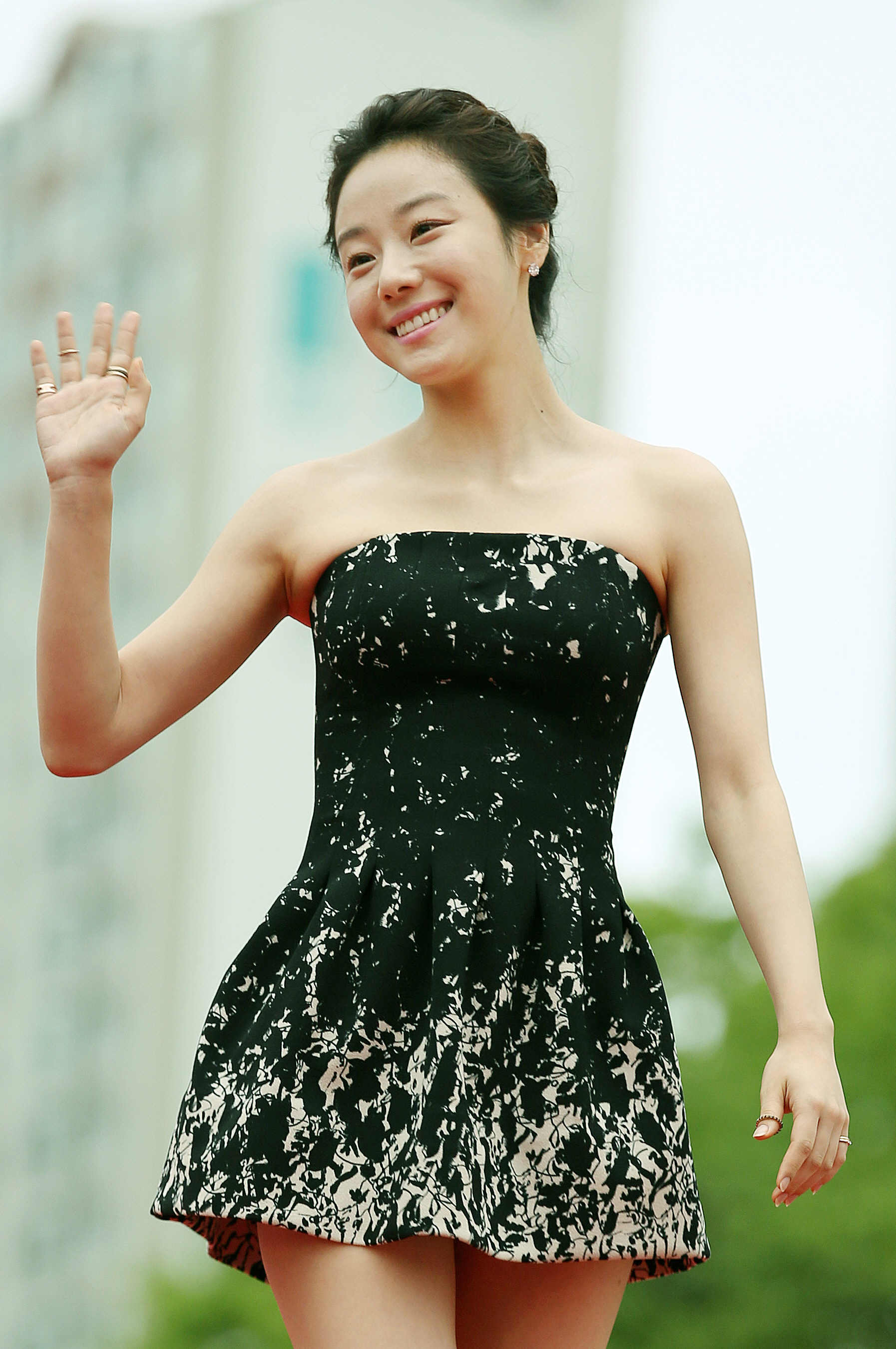 Actress Lee Si-won arrives at the red carpet event of the Pifan in Bucheon on July 17, 2014